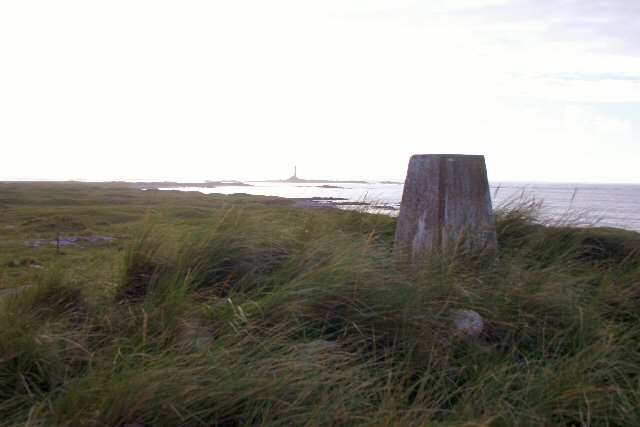 Cnoc Bharr, Monach Islands At just 19 metres, this trig on Ceann Iar is the highest point on the Monach Islands.